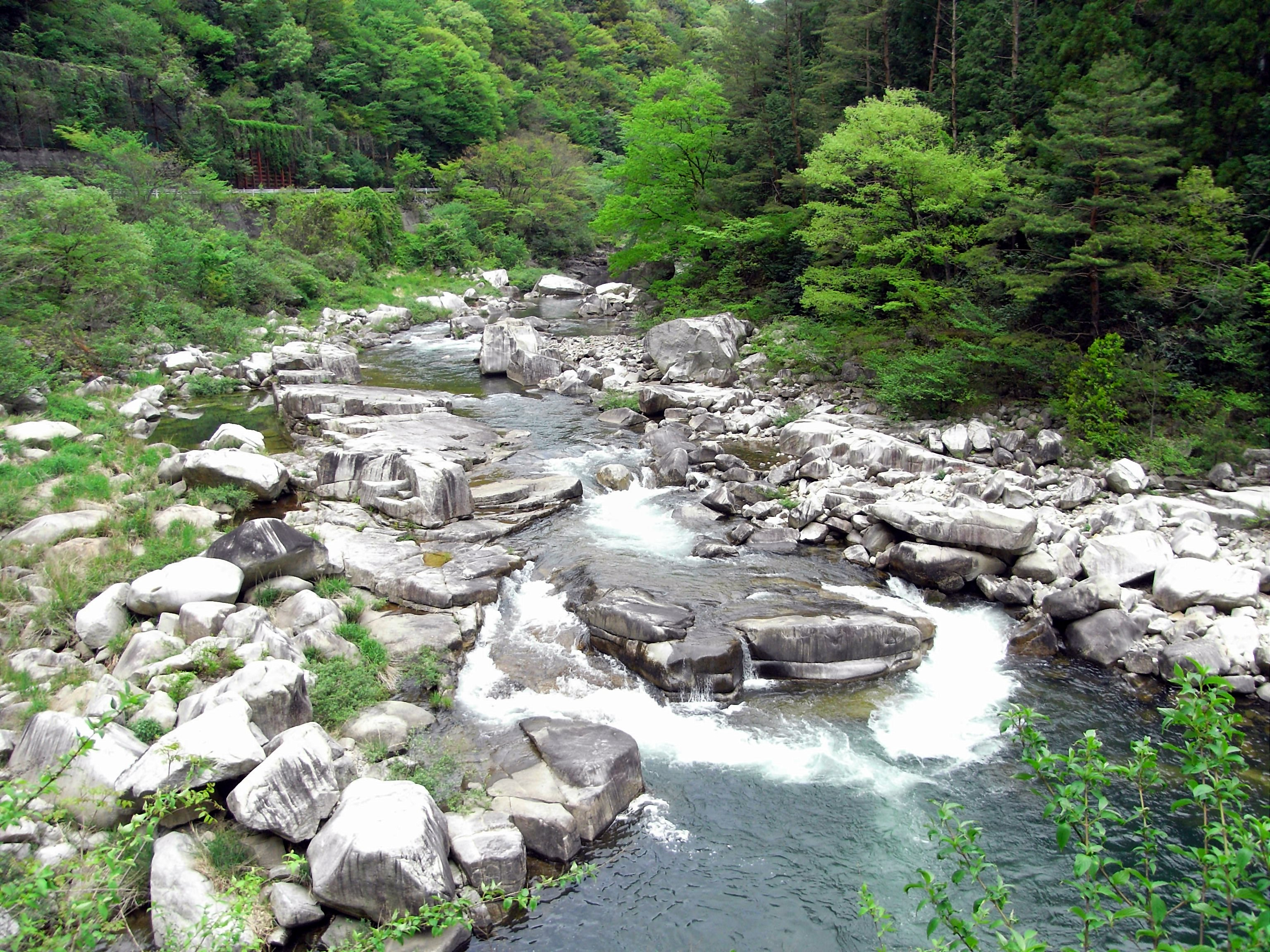 Takiyamakyo Canyon(Akiota,Hiroshima.Takiyamagawa river)